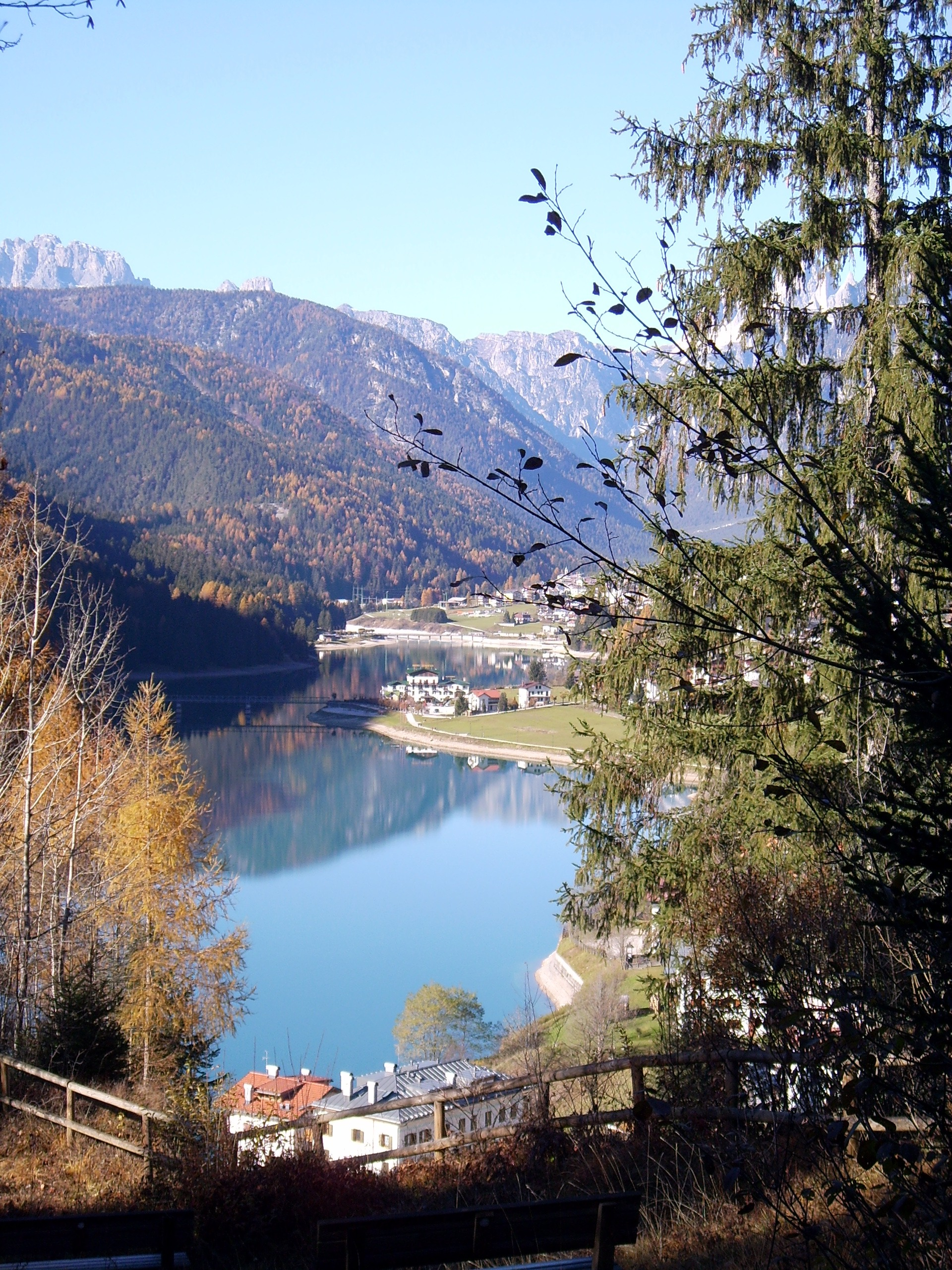 Autumn in Auronzo di Cadore ,Dolomites,Belluno,Italy